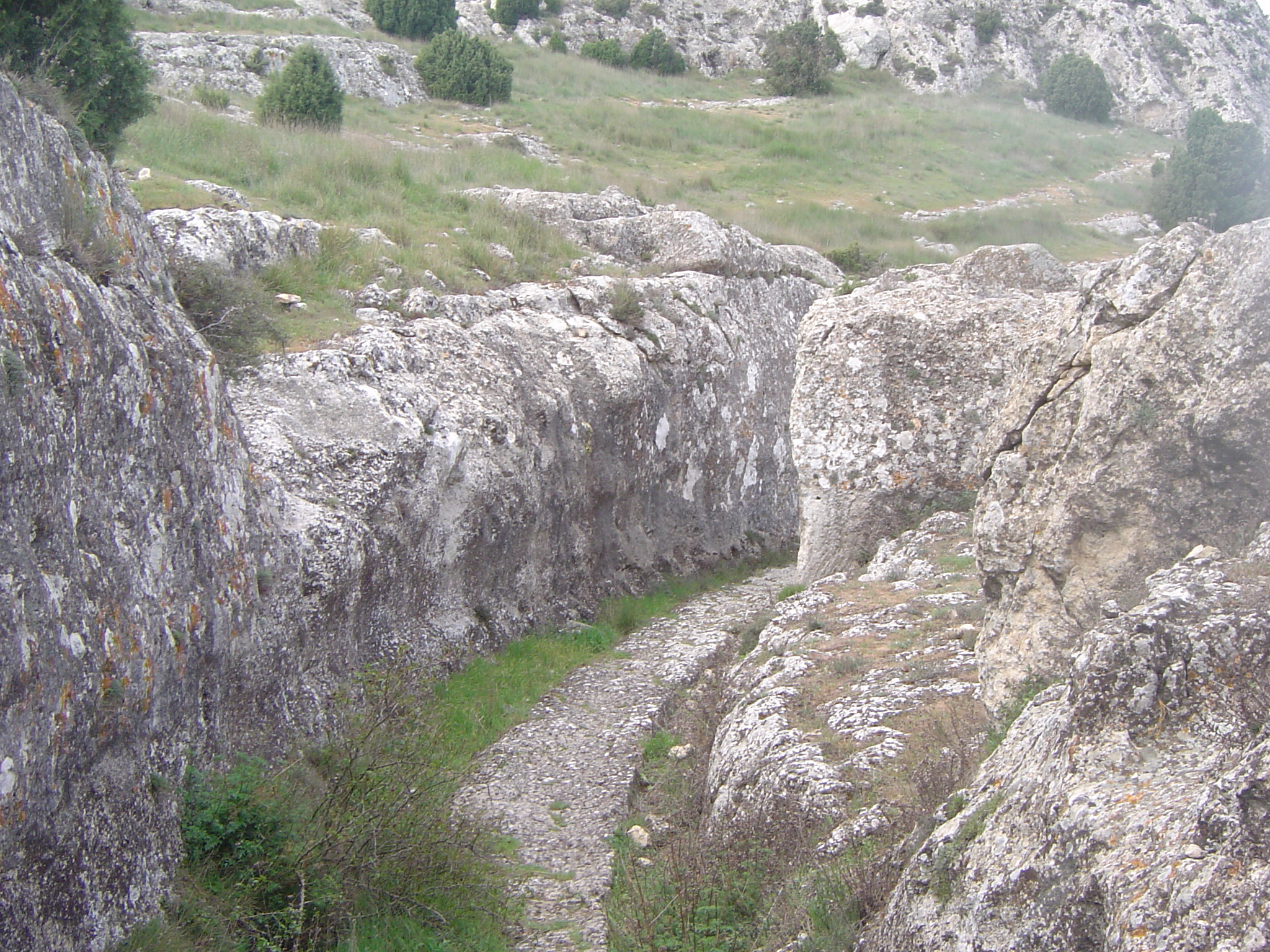 Access way to the remainings of the iberic town of Castellar de Meca, in Ayora, VAlencia, Spain.